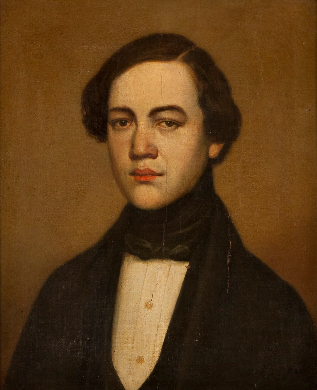 D. Augusto Carlos de Saldanha Oliveira e Daun, 1st Count of Almoster (1821-1845).